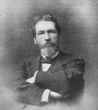 Picture of Pictet, the scientist